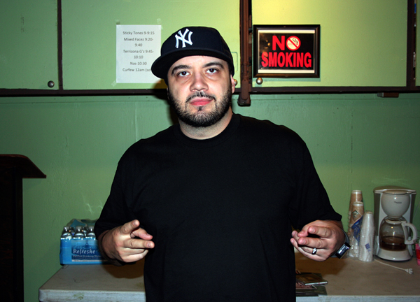 DJ Green Lantern stands backstage, at The Orpheum Theater in Flagstaff Arizona. DJ Green Lantern is currently the touring DJ for Nas on his 2010 North American tour.